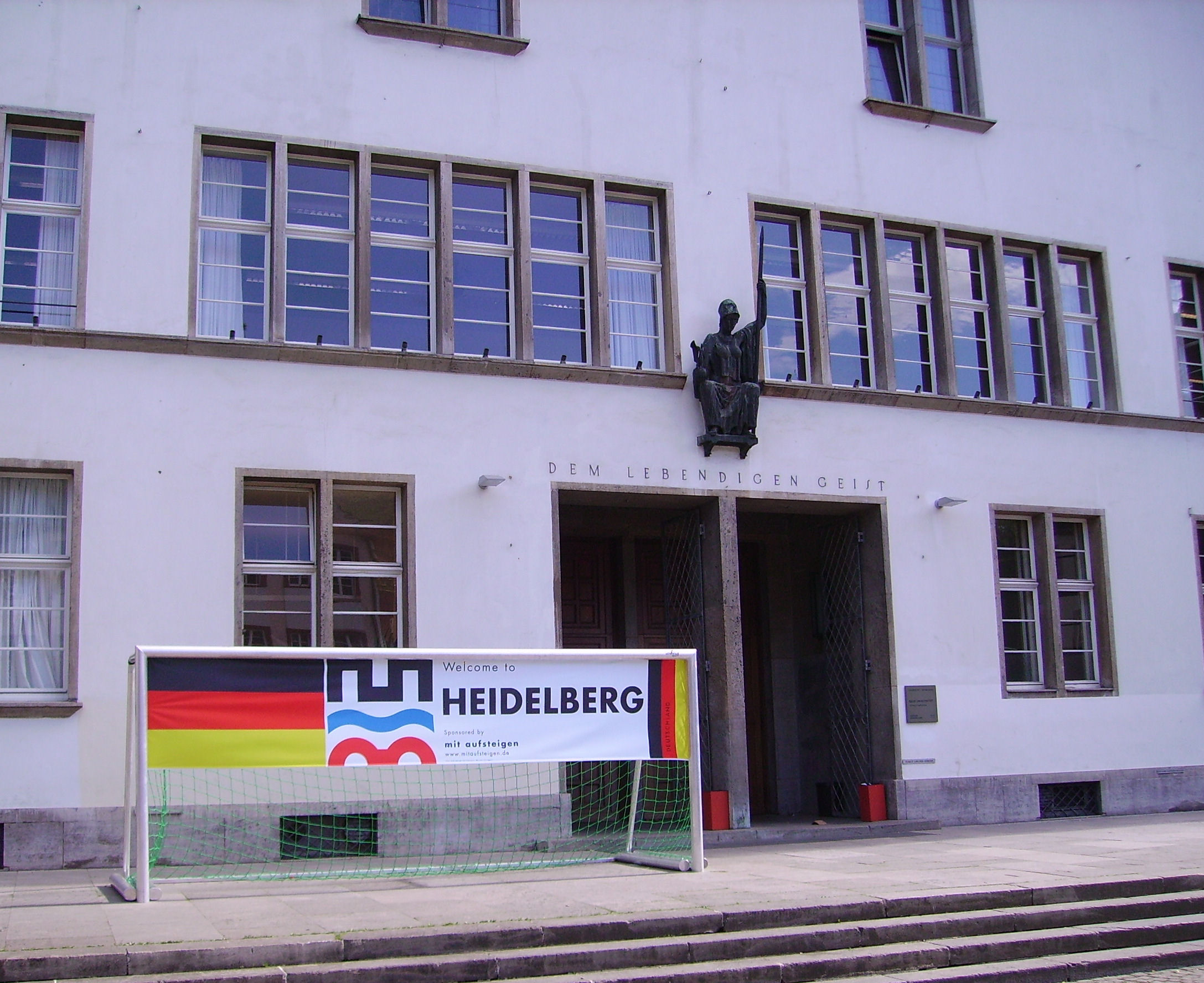 views of Heidelberg, Germany